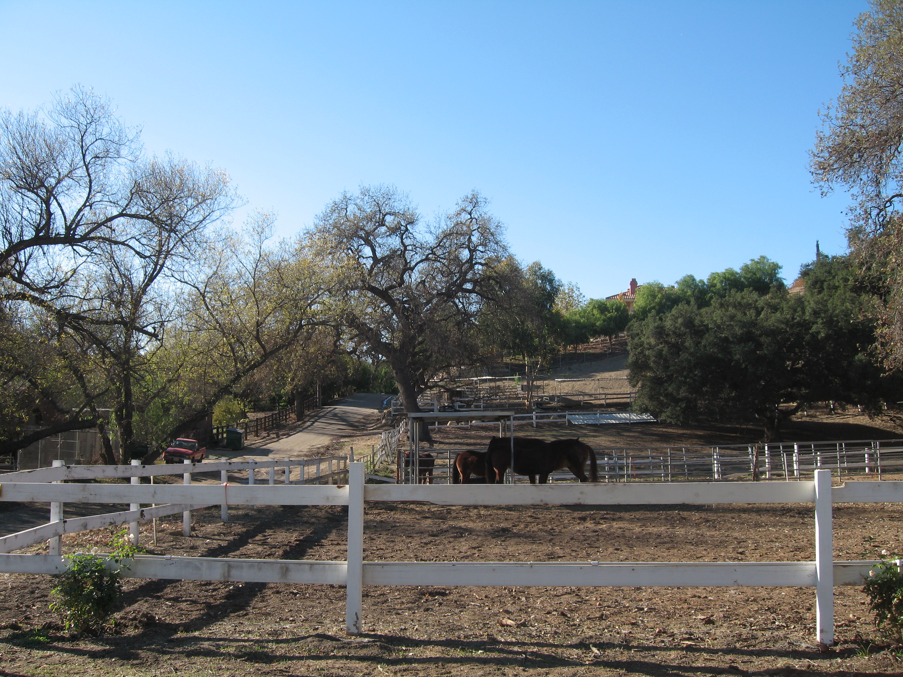 Horse ranch in Old Agoura Kapampangan: Ing metung a ranchu king Matuang Agoura